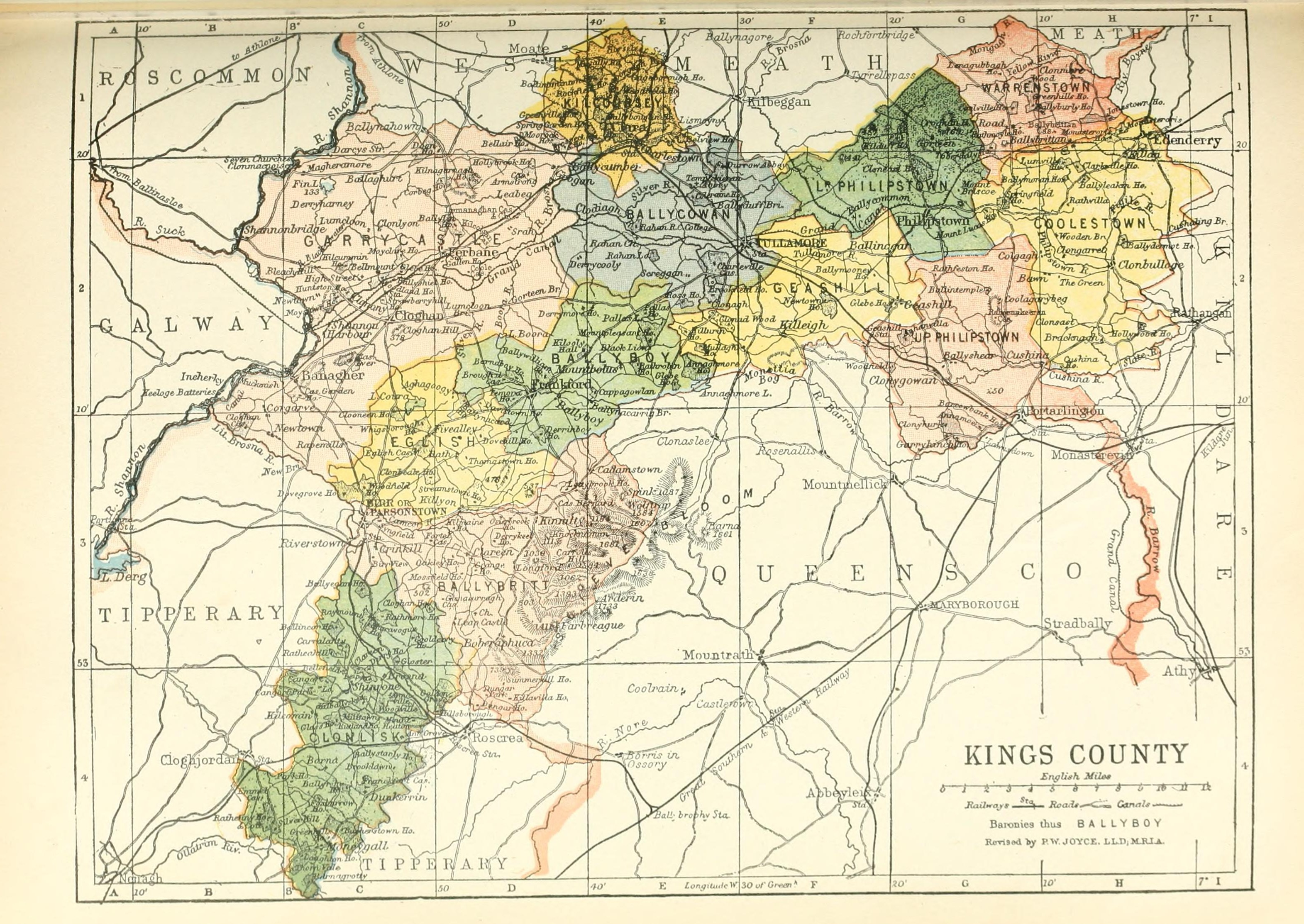 Map of the baronies of County Offaly (then called King's County) in Ireland; taken from Atlas and cyclopedia of Ireland, p.172